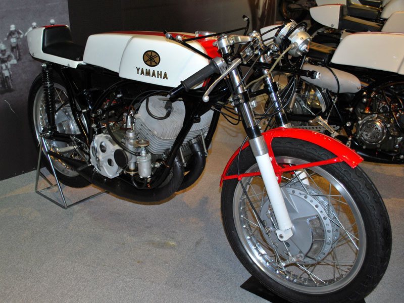 Yamaha RD56 (1965)